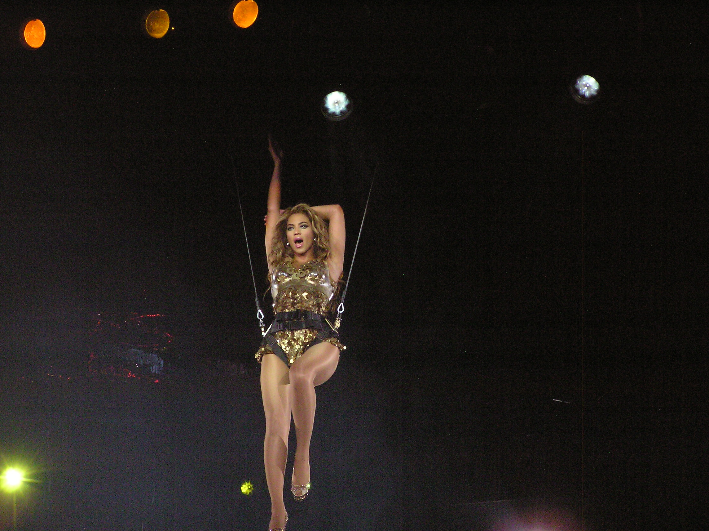 Beyoncé Newcastle 2009